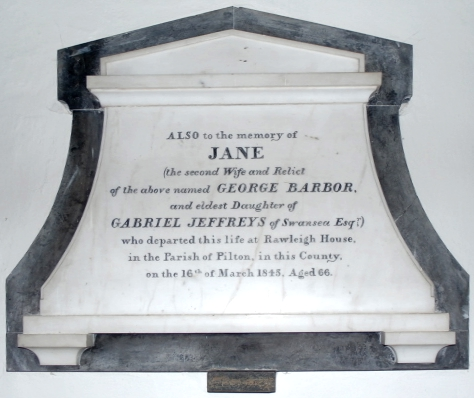 Mural monument to Jane Jeffreys (1779-1845), "Mrs Barbor", the widow of George Barbor (1756-1817) of Fremington House, about three miles (5 km) west of Barnstaple. St Peter's Church, Barnstaple. Inscribed as follows: "Also to the memory of Jane (the second wife and relict of the above named George Barbor and eldest daughter of Gabriel Jeffreys of Swansea Esqr.) who departed this life at Rawleigh House in the parish of Pilton in this county on the 16th of March 1845 aged 66"